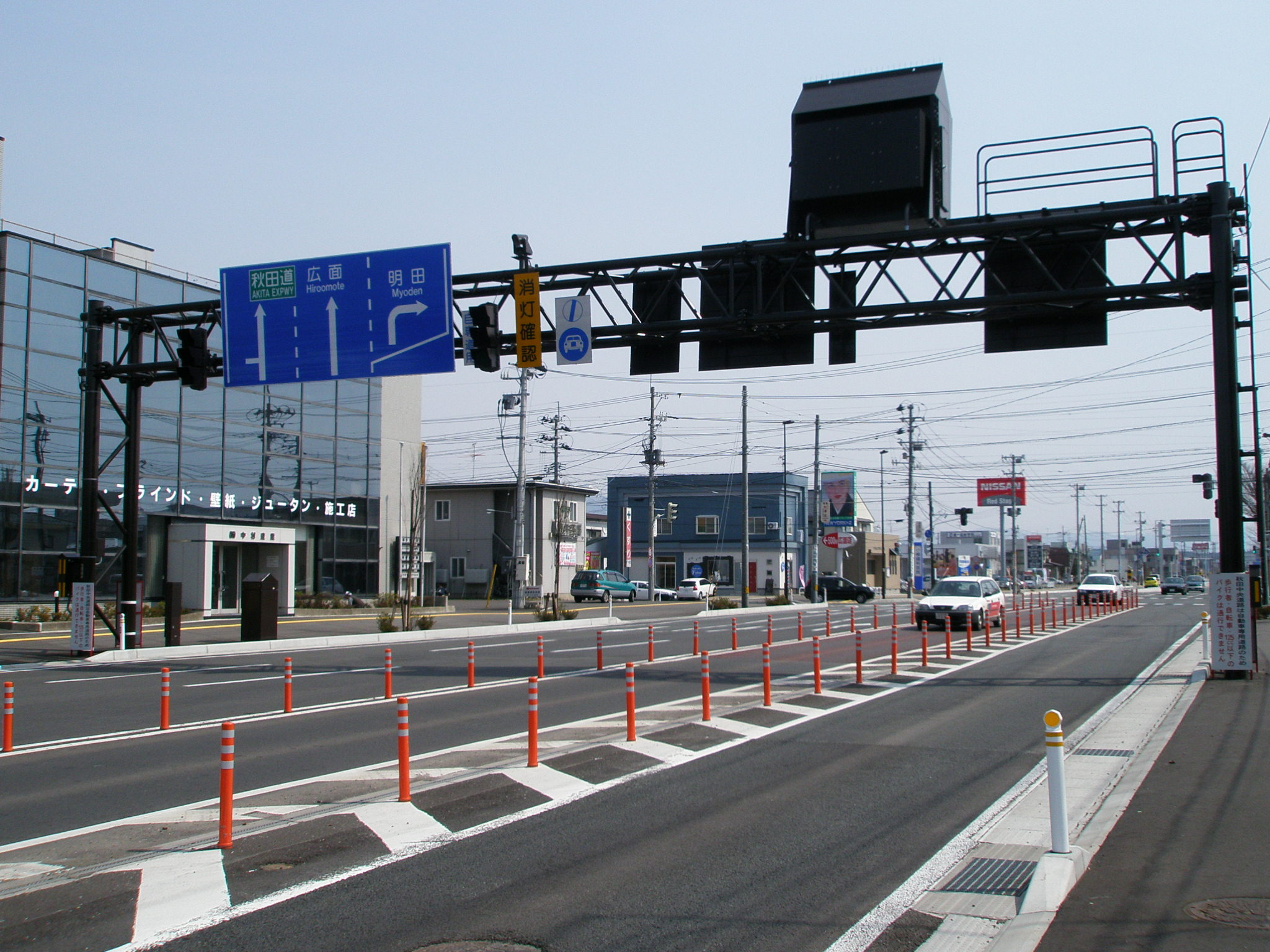 Akita prefectural road route 62 at Higashidōri, Akita city, Japan.